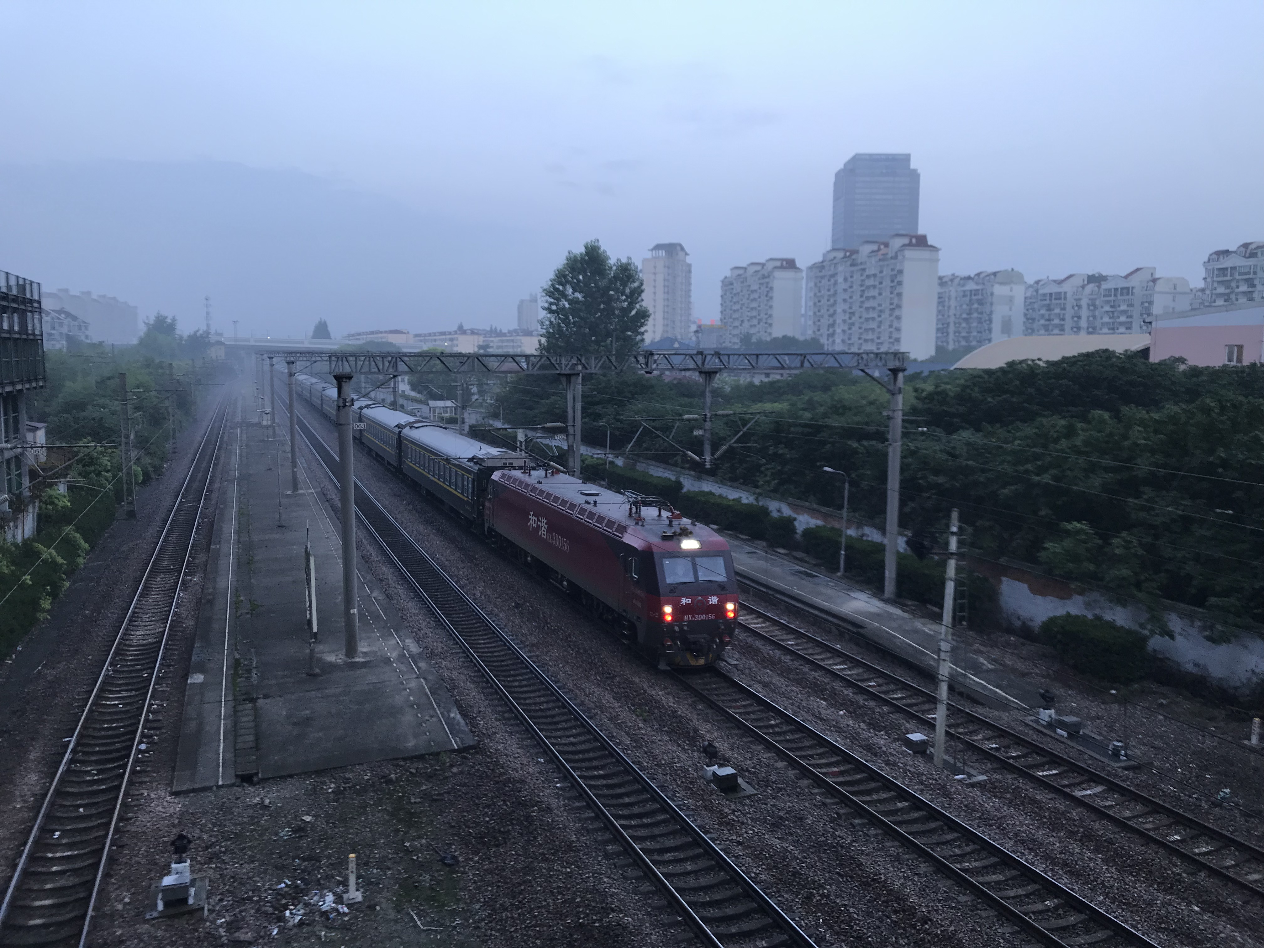 A rare Nanchang-based HXD3D...